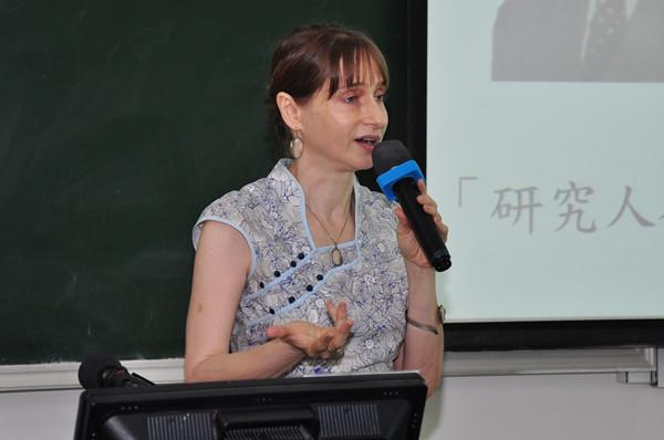 Olga Gorodetskaya giving a lecture